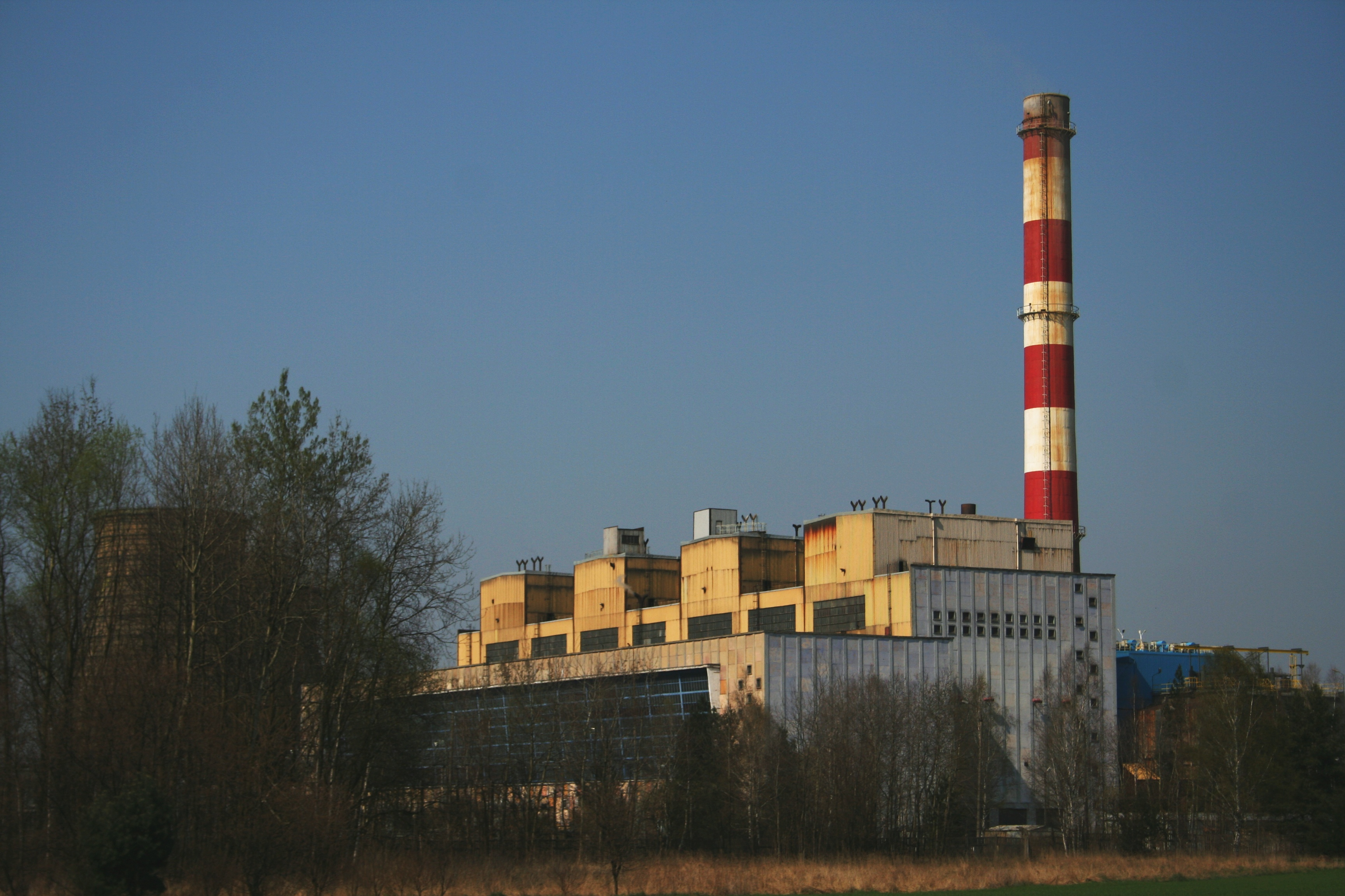 power plant Halemba, Poland